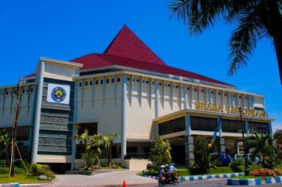 graha cakrawala UM